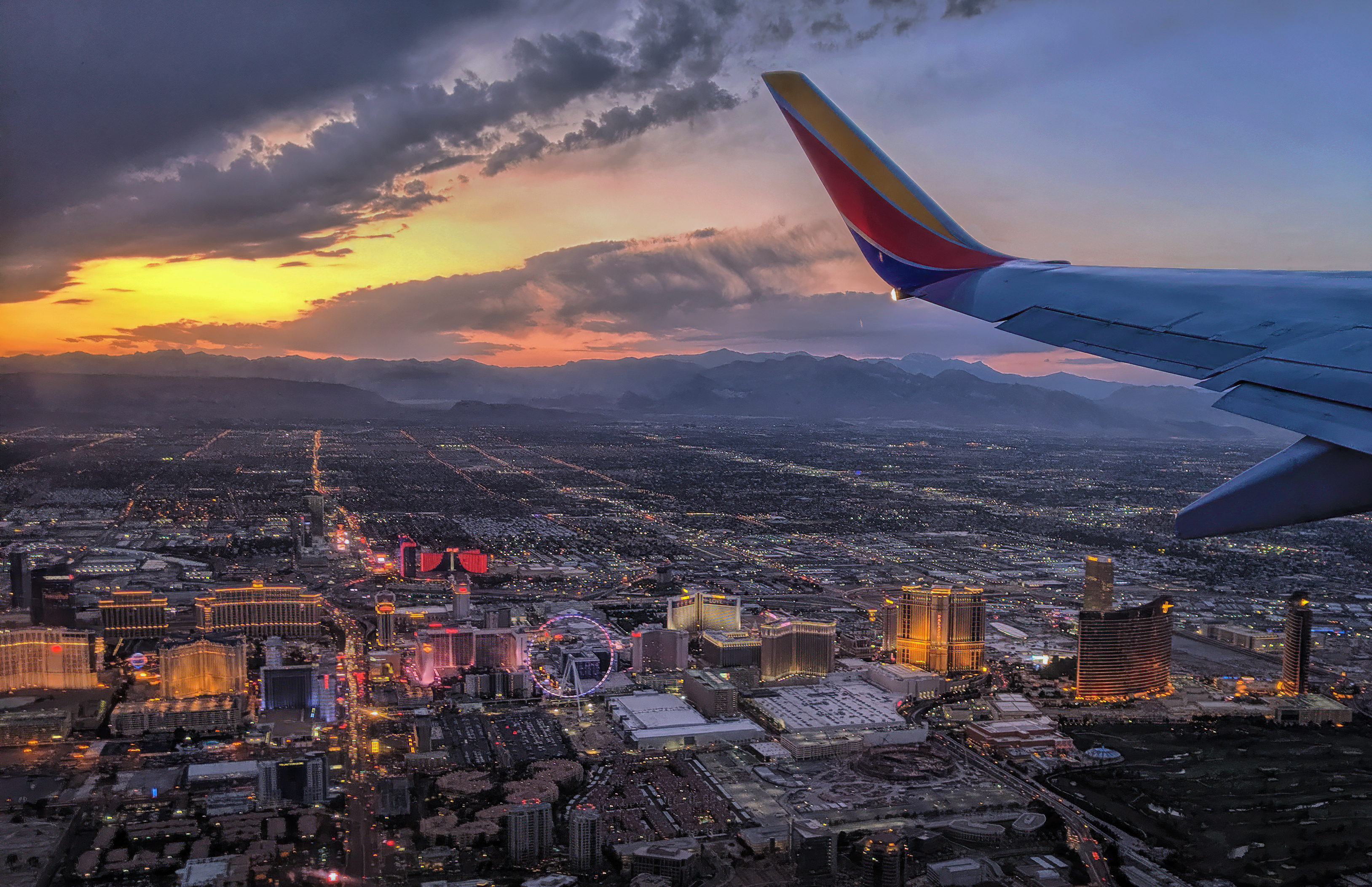 An aerial view of the Las Vegas Strip.